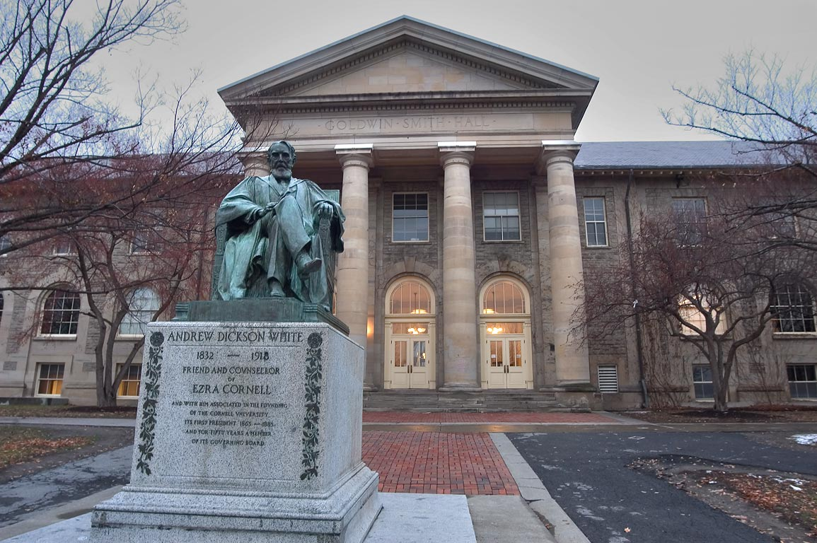 Andrew Dickson White statue by Karl Bitter, and Goldwin Smith Hall at Cornell University